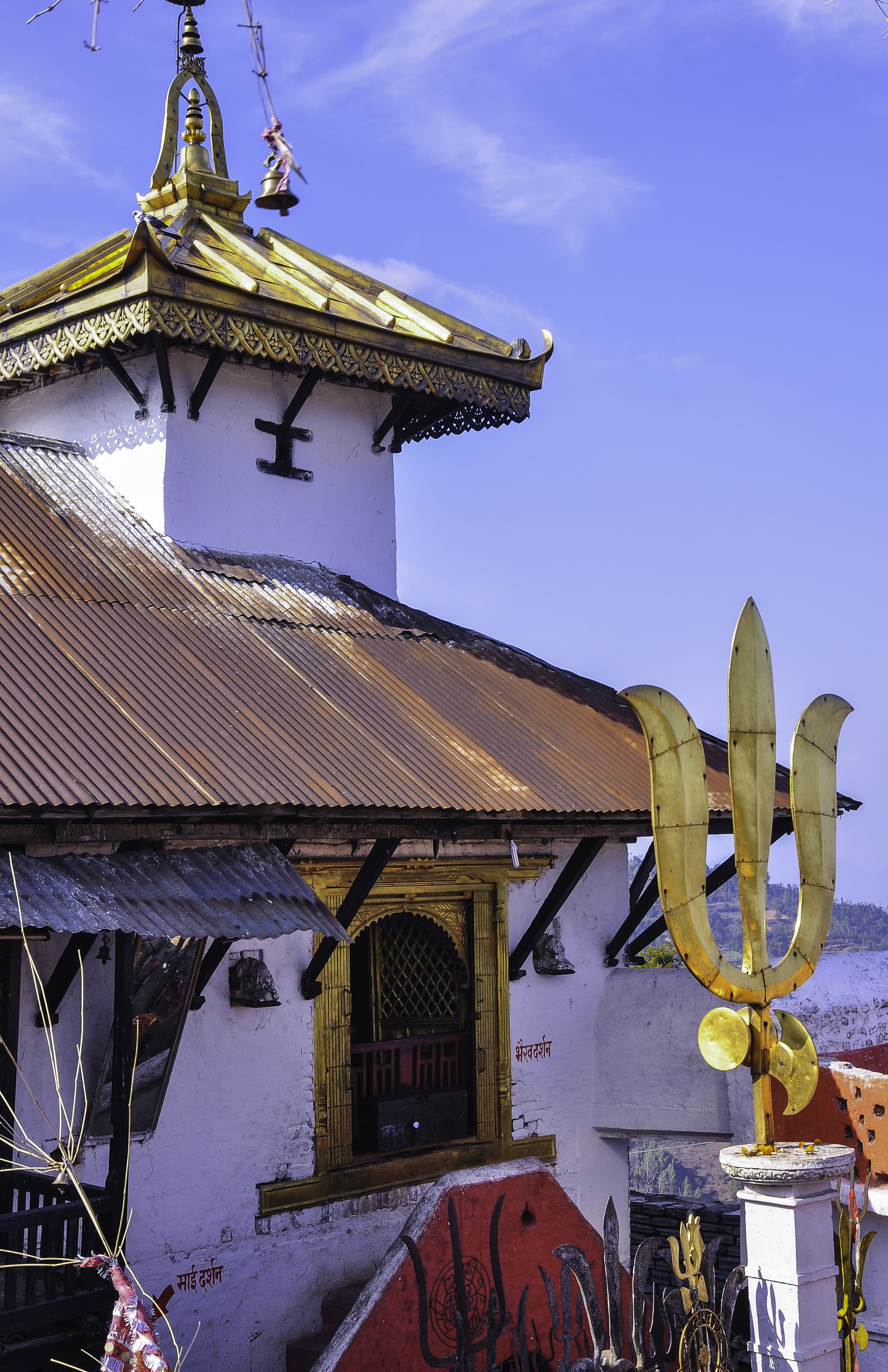 This temple is of God Bhairab, identical to the God Kal Bhairab, God of Destruction. This temple is situated in Palpa District of Nepal. it has got big Trishul on it. It has lots of Followers on Tuesday and Saturday from cities near and people across the country.